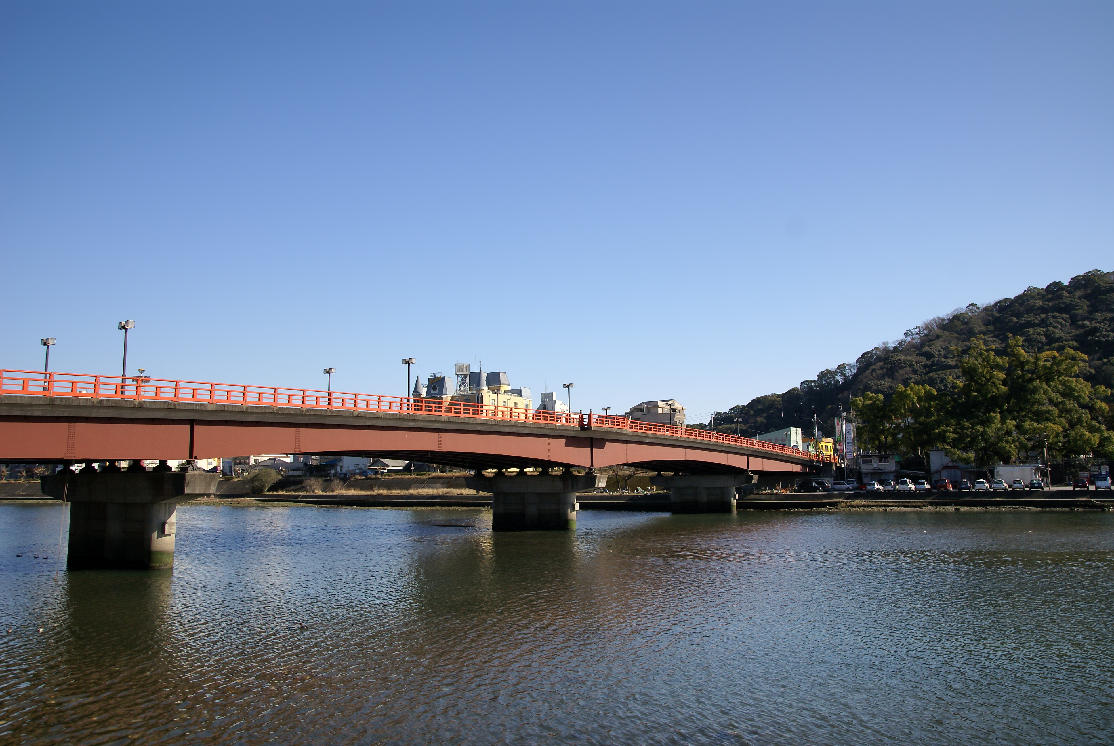 Kagami River at Kochi, Kochi prefecture, Japan